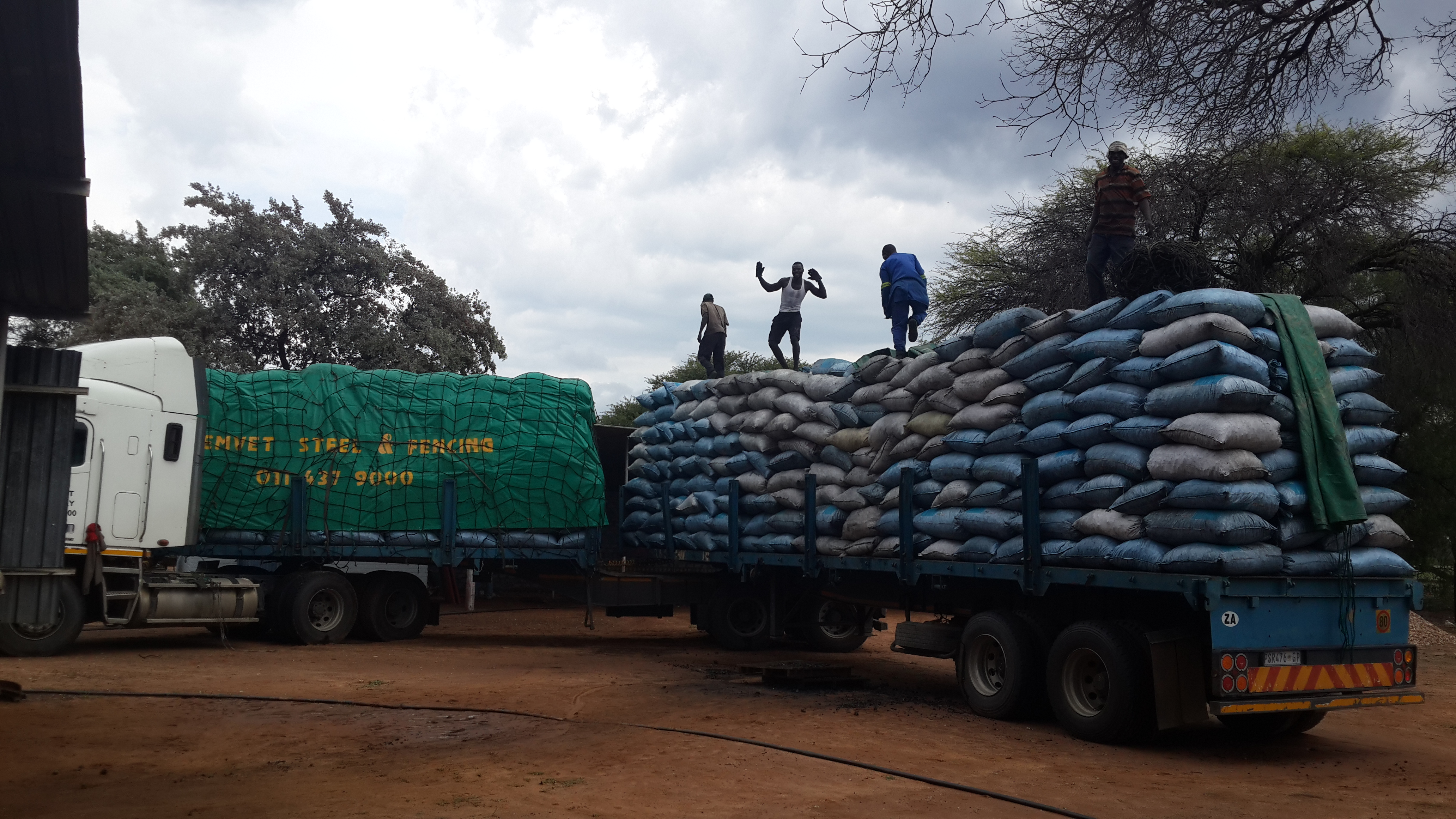 This is an image with the theme "Play" from: Namibia